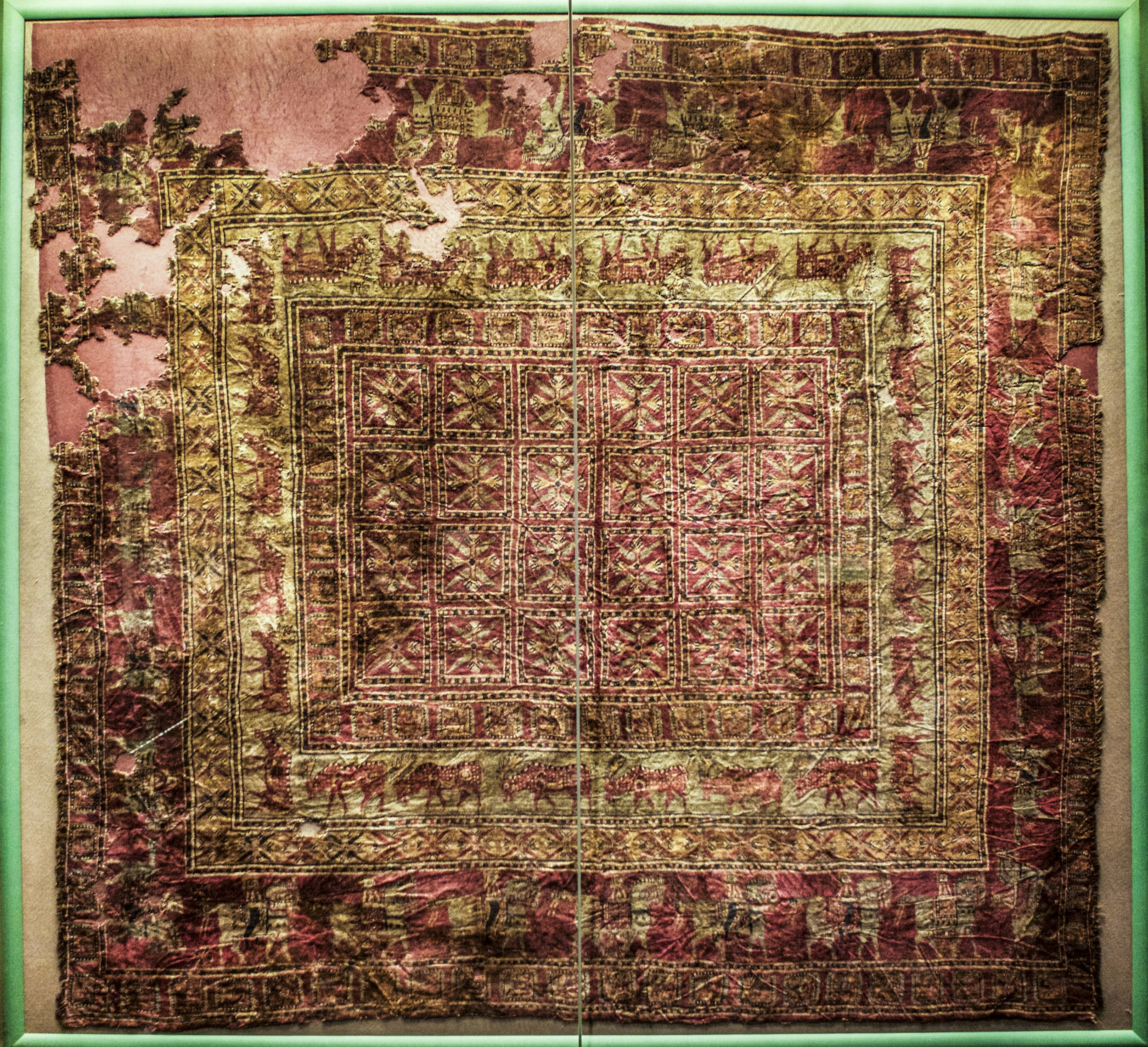 The Pazyryk carpet was discovered in a unique archaeological excavation in 1949 among the ices of Pazyryk Valley, in Altai Mountains in Siberia. The carpet was found in the grave of a Scythian prince. Radiocarbon testing indicated that the Pazyryk carpet was woven in the 5th century BC. This carpet is 283 by 200 cm (approximately 9.3 by 6.5 ft) and has 36 symmetrical knots per cm² (232 per inch²). The advanced weaving technique used in the Pazyryk carpet indicates a long history of evolution and experience in this art. Pazyryk carpet is considered as the oldest carpet in the world. Its central field is a deep red color and it has two wide borders, one depicting deer and the other Persian horsemen. (Wikipedia)